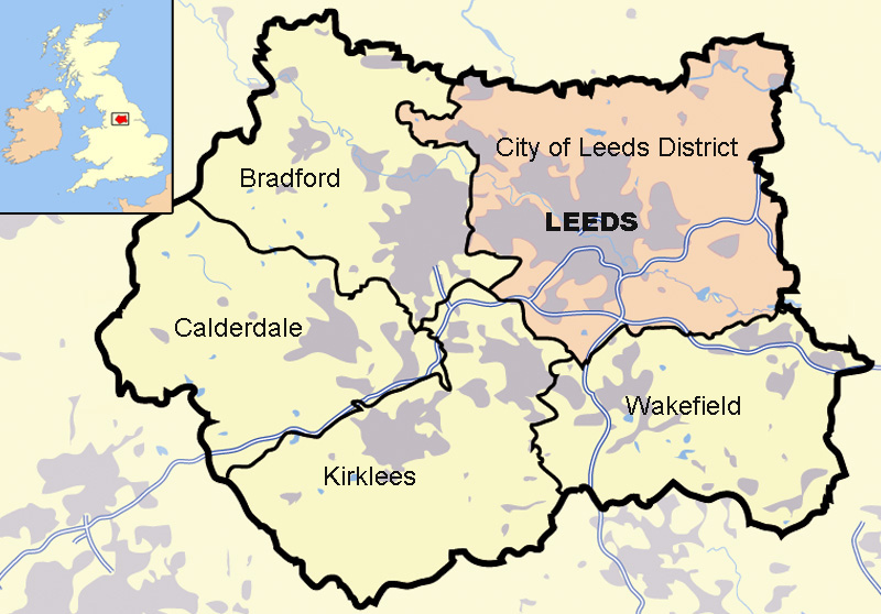 Map of West Yorkshire and surrounding area, highlighting Leeds, with indented map of the British Isles for national context. County and borough boundaries in black, urban areas in grey, motorways in blue with white stripe, water bodies in light blue. Leeds district in pink.